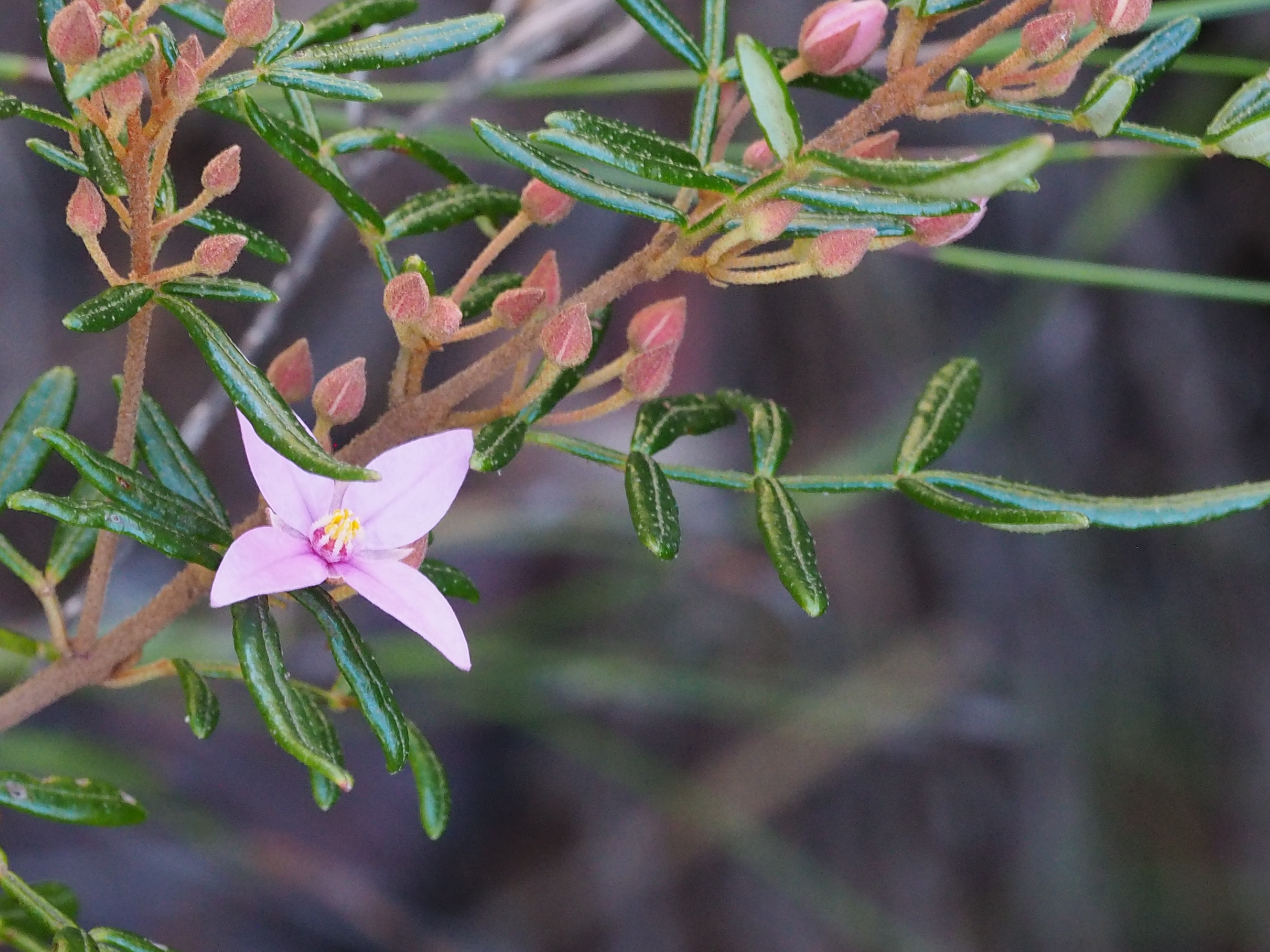 Boronia angustisepala growing near the Dandahra Crags track in the Gibraltar Range National Park